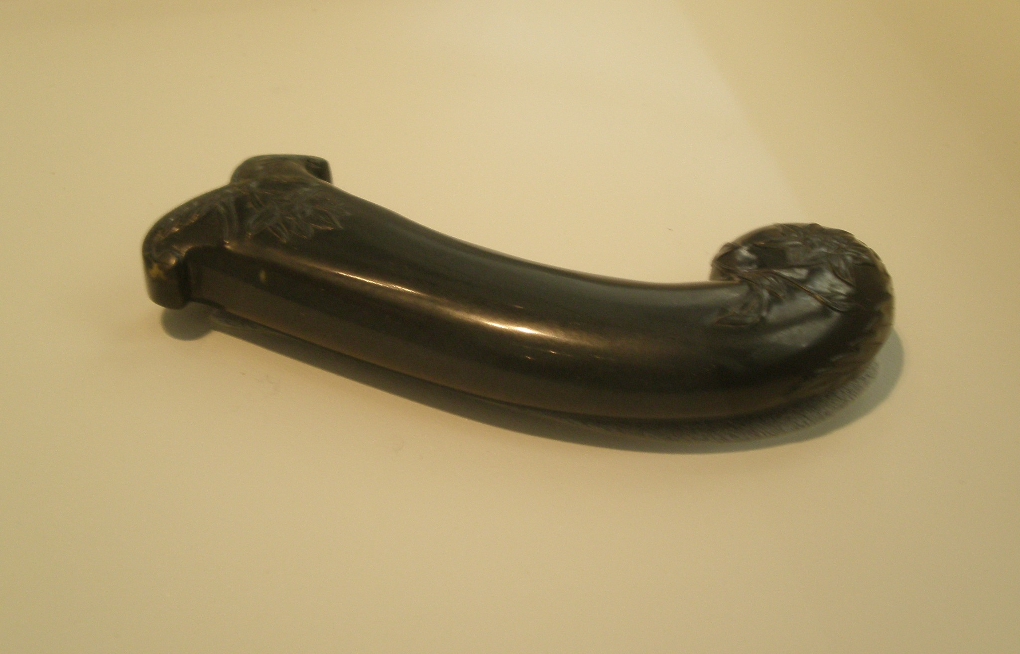 Mughal Empire nephrite dagger handle (18th century) on display at the Iris & B. Gerald Cantor Center for Visual Arts on the Stanford University campus in Stanford, California.